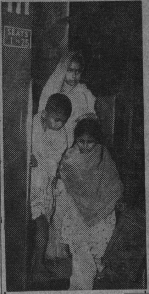 After the 1964 Khulna riots Mrs. Bhawal with her son and daughter reaching Kolkata by Eastbengal mail